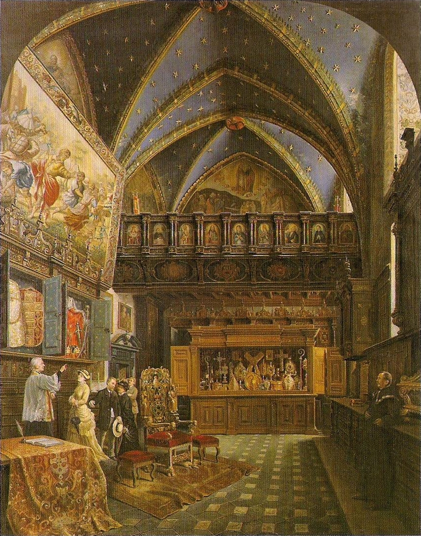 Interior of treasury in Wawel Cathedral. Collection of Wawel Castle.